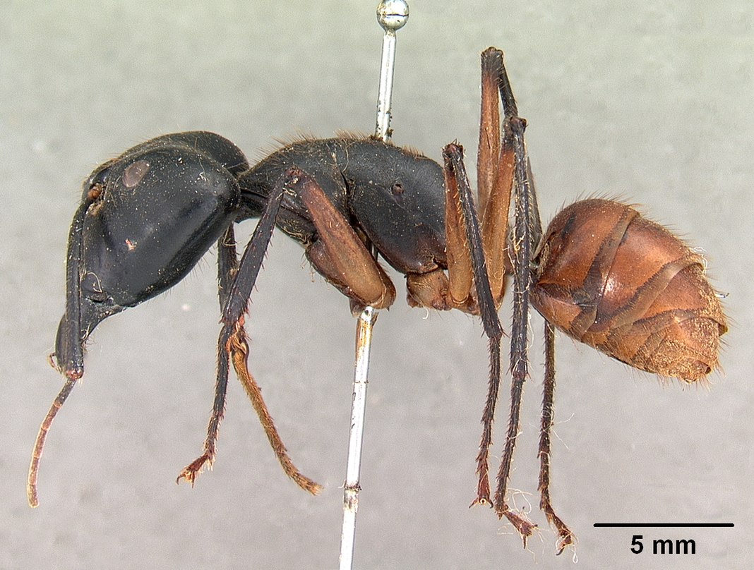 Profile view of ant Camponotus gigas borneensis specimen casent0102091.